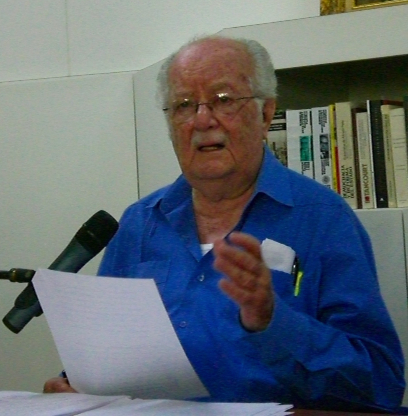 Venezuelan politician, diplomat and historian Simón Alberto Consalvi